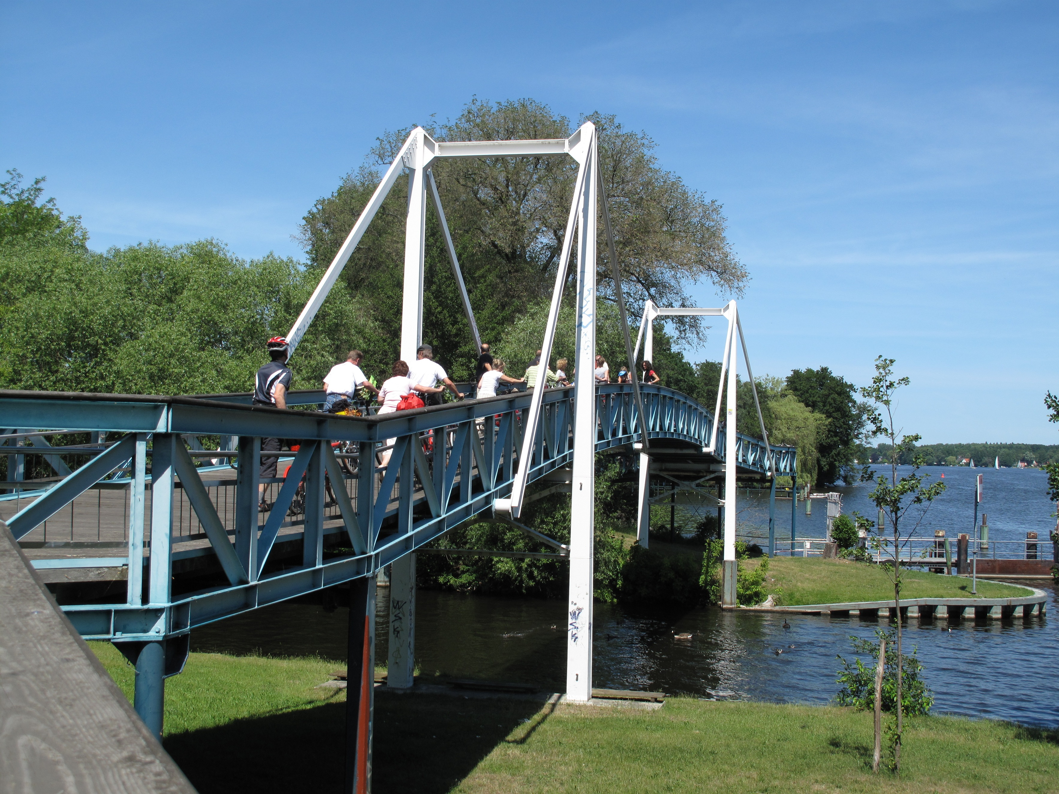 The Oberhavelsteg spans the Teufelsseekanal (canal) and is situated in Berlin, Borough Spandau, locality Hakenfelde. The foot- and bikeway bridge is part of the Berlin-Copenhagen Cycle Route and of the Havel Cycle Route (german: Havelradweg). The barrier-free cable-stayed bridge was opened in 1991 and has a length of 125 meters.